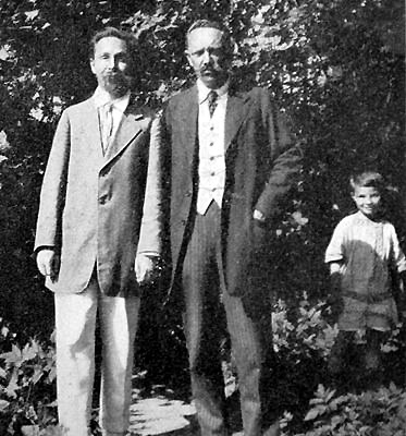 A.N.Scriabin & Jurgis Baltrushaitis & Julian Scriabin selo Petrovskoe na Oke - leto 1913